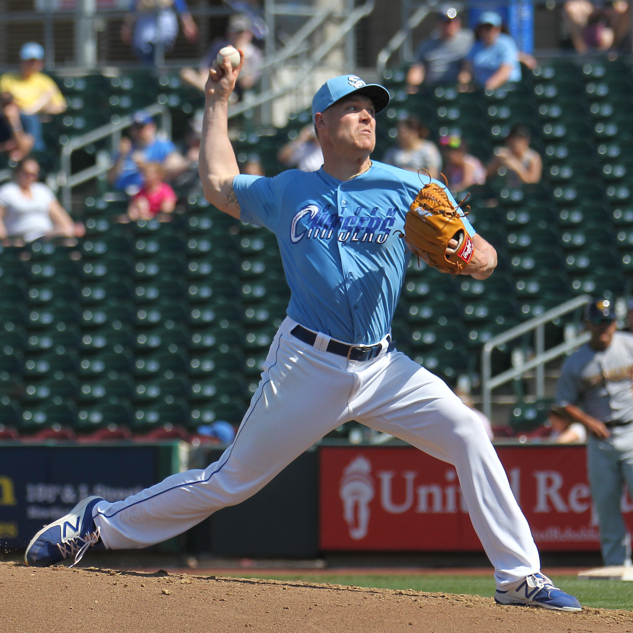 Kevin Lenik pitching for the Omaha Storm Chasers in 2018